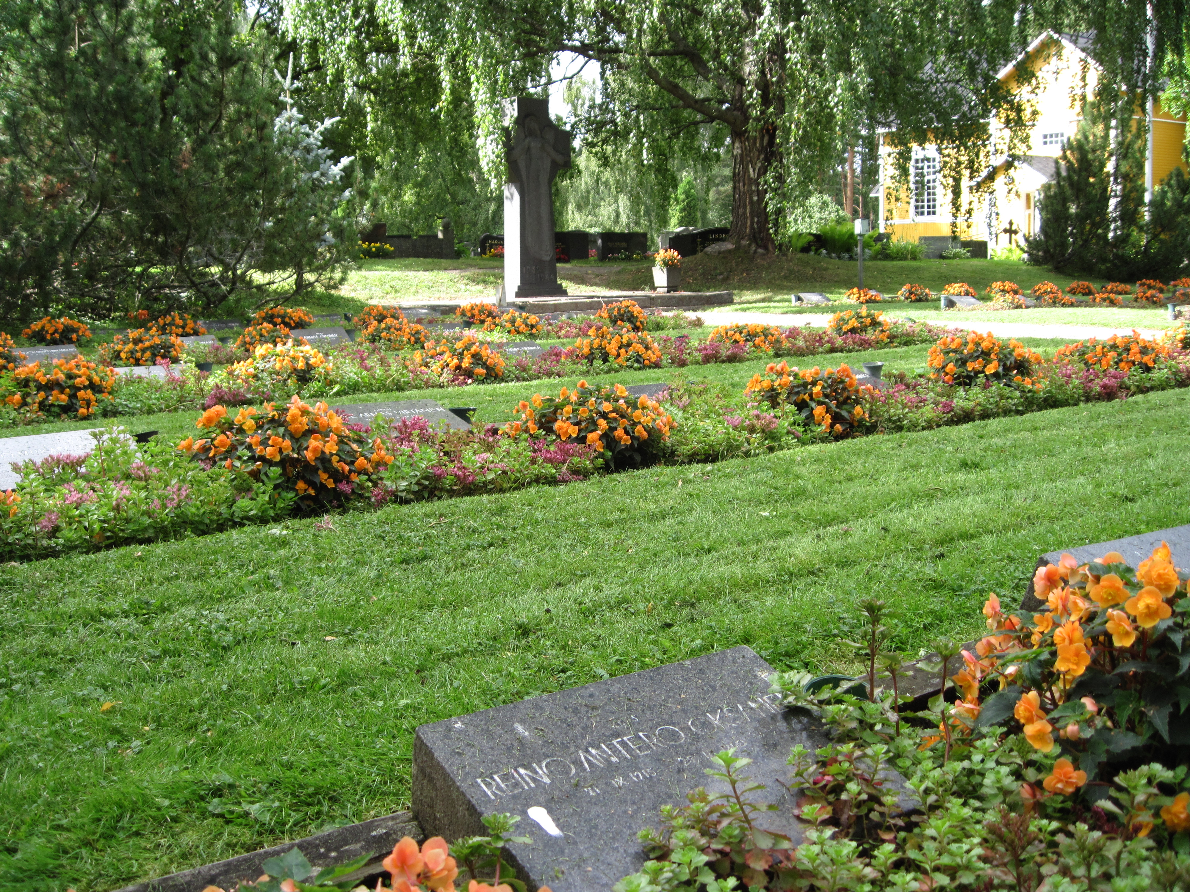 Military cemetary at church in Somerniemi, Finland